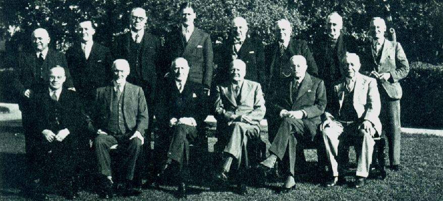 Standing, left to right.— Dr.Colin Steyn, Minister of Justice ; Mr. H. C. Lawrence, Minister of the Interior and Public Health ; Senator A. M. Conroy Minister of Lands ; Major P. van der Byl, Minister without Portfolio ; Mr. C. F. Sturrock, Minister of Railways and Harbours ; Senator C. F. Clarkson, Minister of Posts and Telegraphs and Public Works ; Col. C. F. Stallard, Minister of Mines ; Mr. W. B. Madeley, Minister of Labour and Social Welfare. Sitting, left to tight. Mr. J. H. Hofmeyr, Minister of Finance and Education ; General Smuts, Primt Minister, Minister of External Affairs and Defence; The Governor General, Sir Patrick Duncan ; Col. D. Reitz, Minister of Native Affairs ; Mr. R. Stuttaford, Minister of Commerce and industries, and Col Collins, Minister of Agriculture and Forestry.